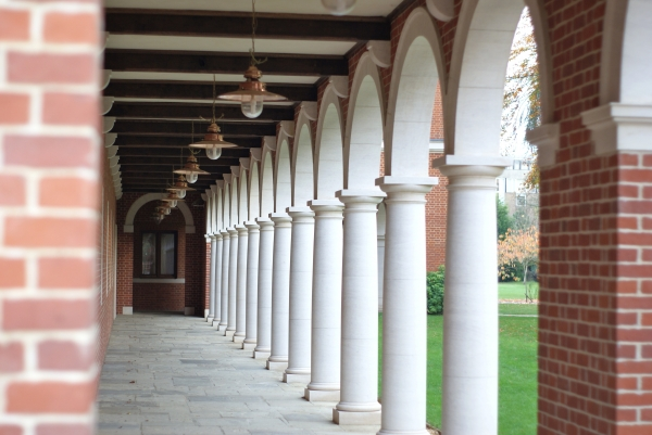 Selwyn College Walkway